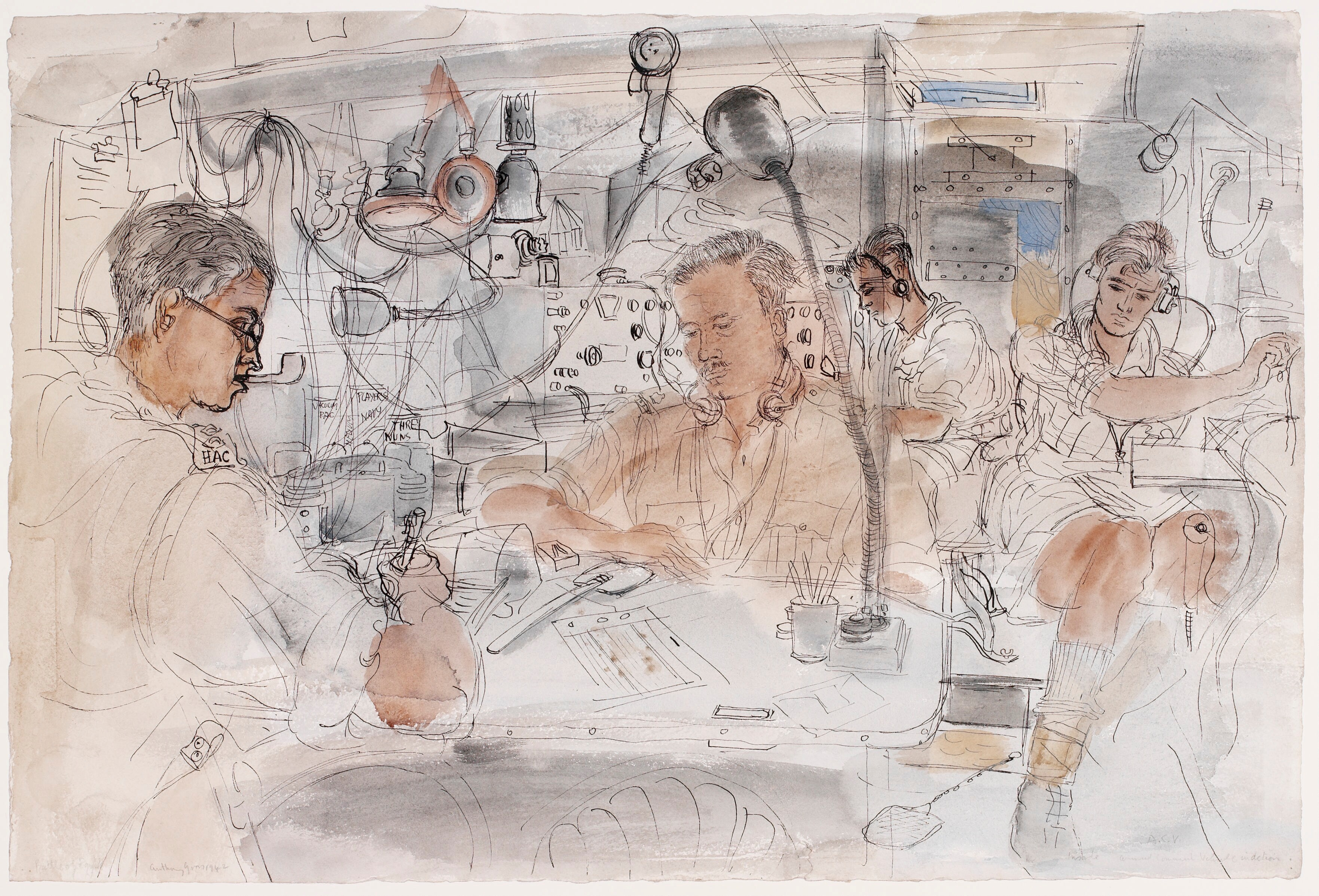 The Battle of Egypt, 1942- Inside an Armoured Command Vehicle in Action image: The interior of a cramped working space crowded with electrical equipment. In the foreground two officers sit at a reporting table on which lies a jar of pencils, paper and a fly-swat. One has a pipe in his mouth, and the other has a pair of headphones round his neck. In the background on the right two communications soldiers wearing headphones sit close to the wireless equipment. The scene is lit by a desk-lamp on the table.